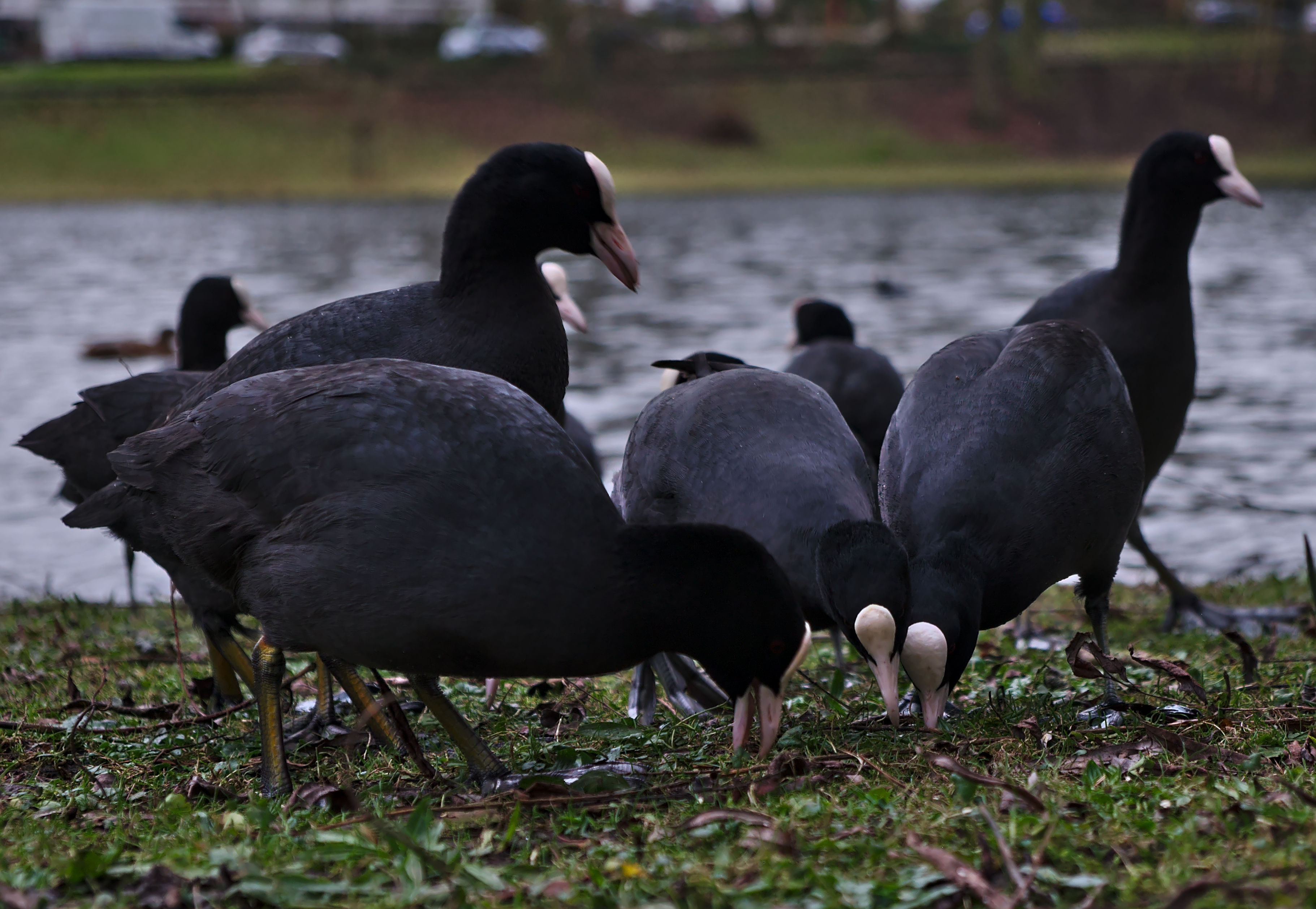 Fulica atra feeding in front of étang Tenreuken, Auderghem, Belgium (DSCF2926)